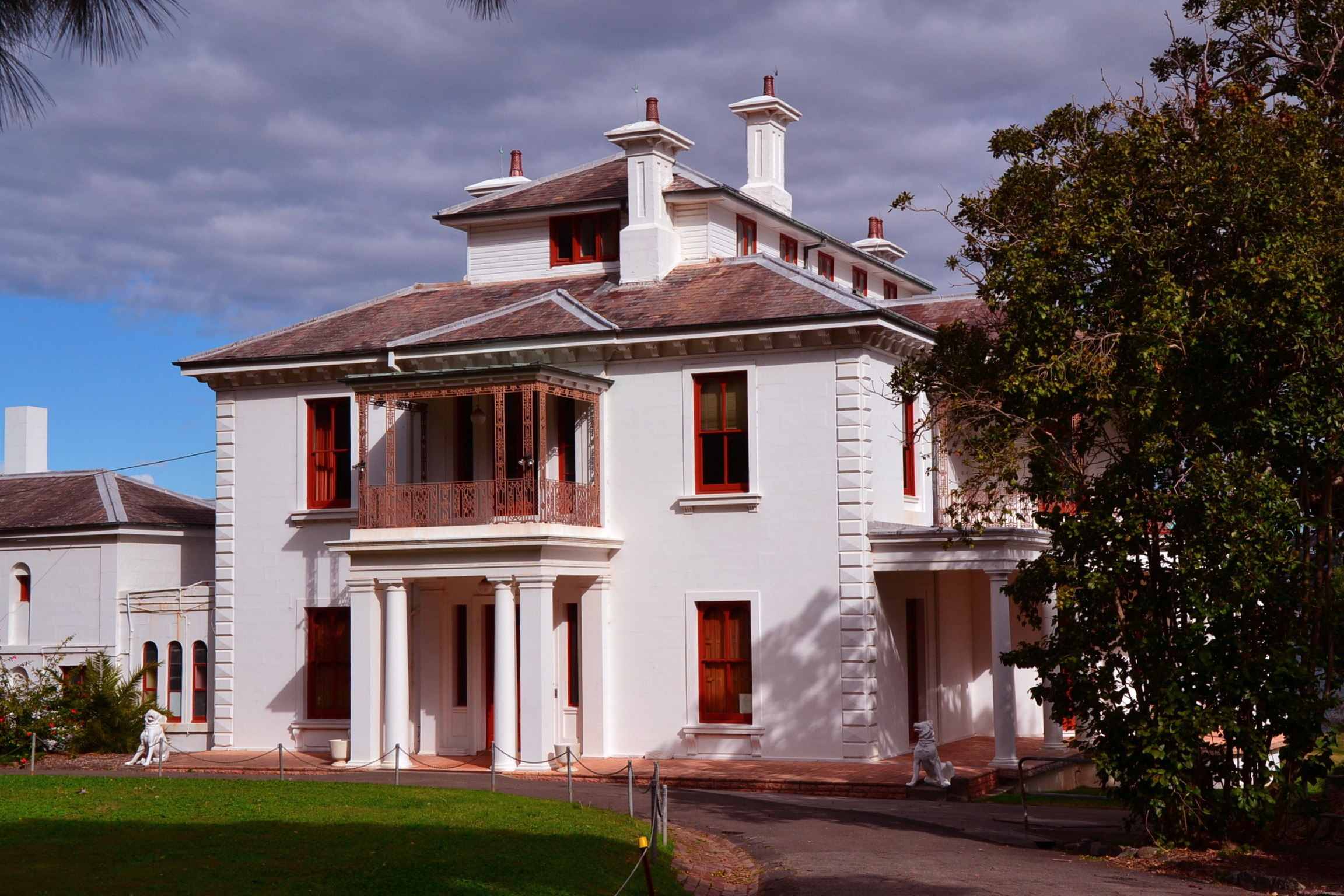 Strckland House, Sydney